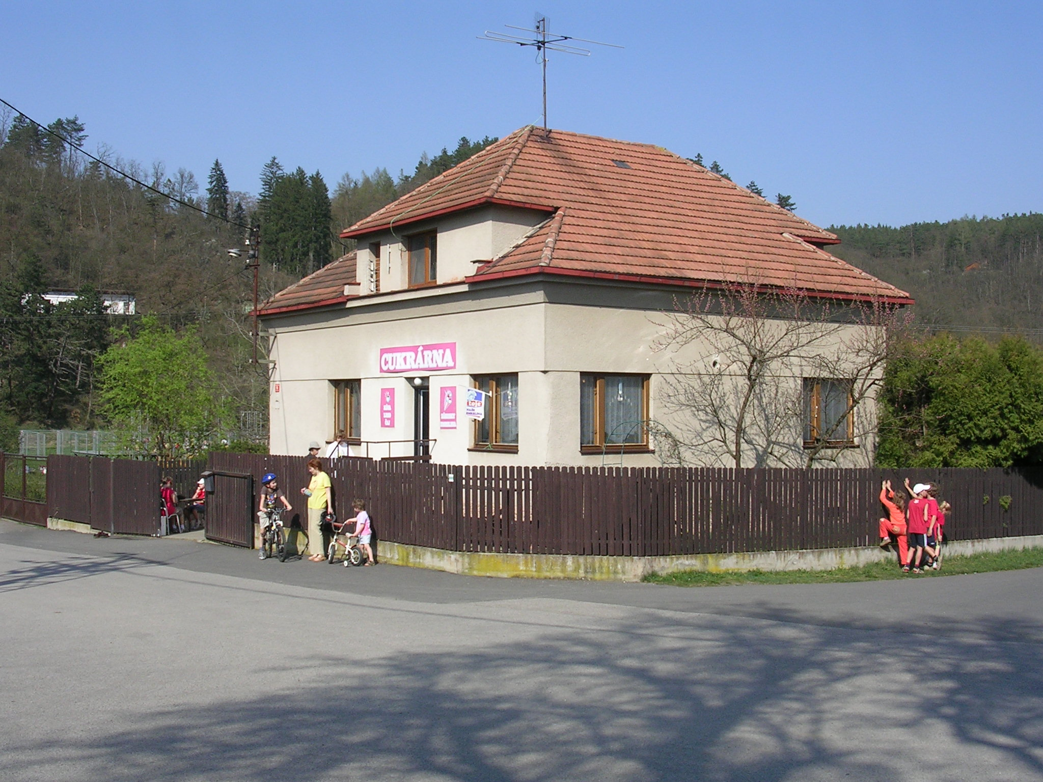 Hradištko-Pikovice, the Czech Republic. A sweetshop.